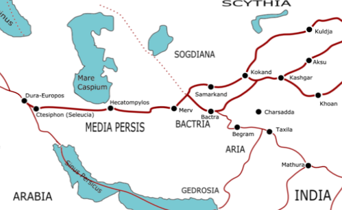 the Silk Road in Central Asia